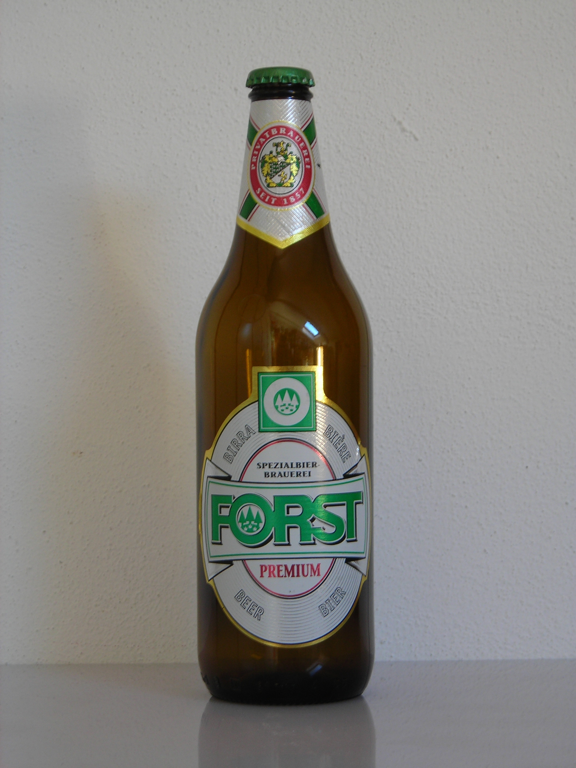 Bottle of Forst beer